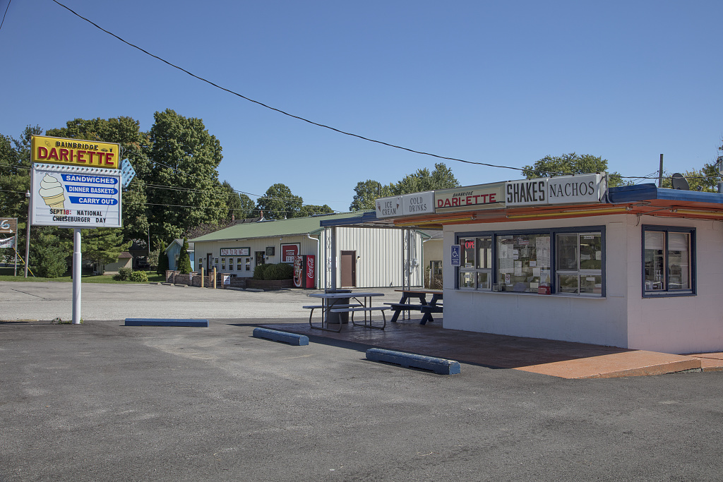 The Dari-ette -- not Dairy-ette -- ice-cream stand in Bainbridge, Indiana.